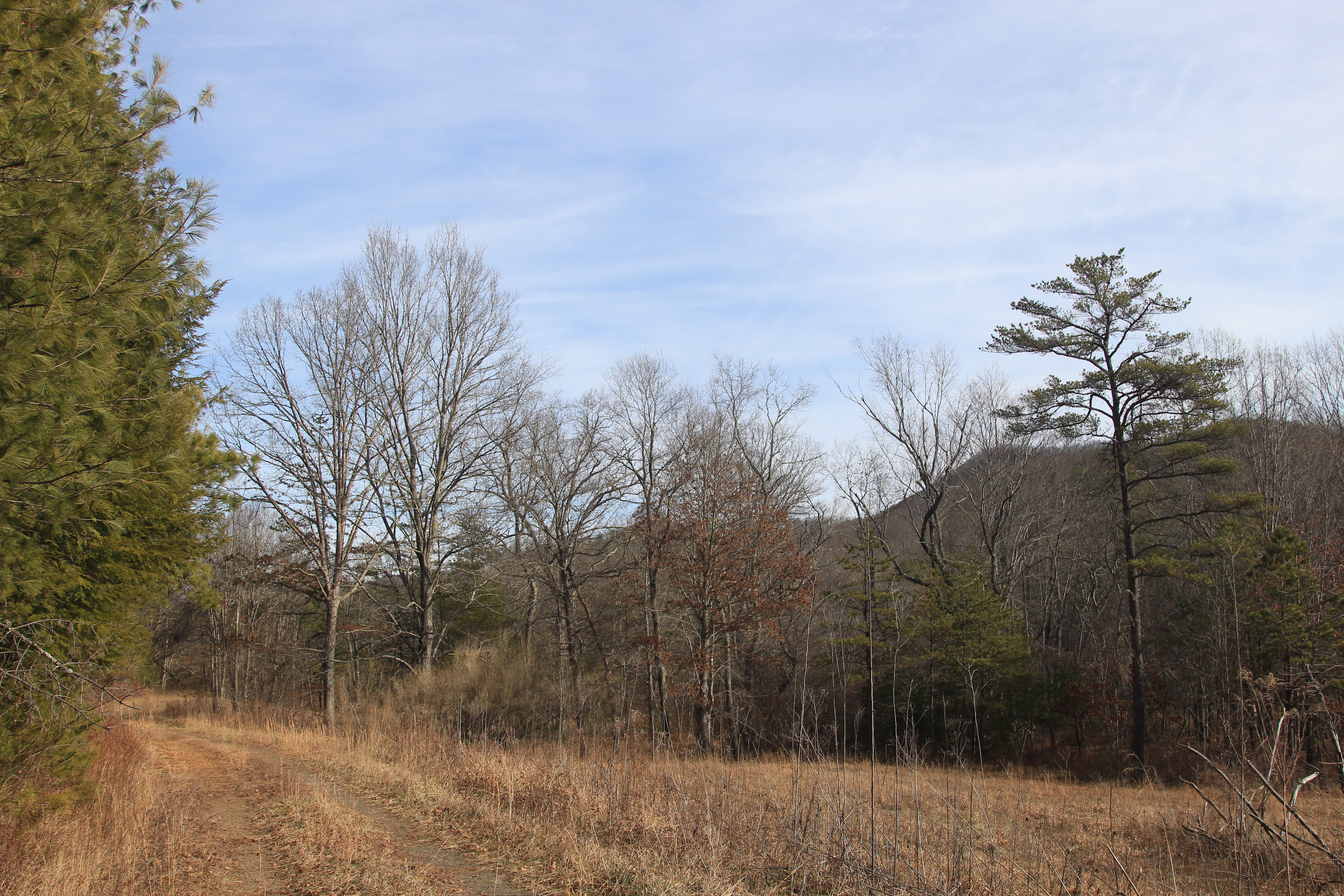 Looking northeast along Crawfish Valley, December, 2019